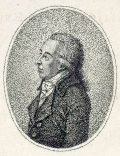 German composer Friedrich Wilhelm Rust (1739-1796). Stipple engraving by Joseph Friedrich August Schall (1785-1867).